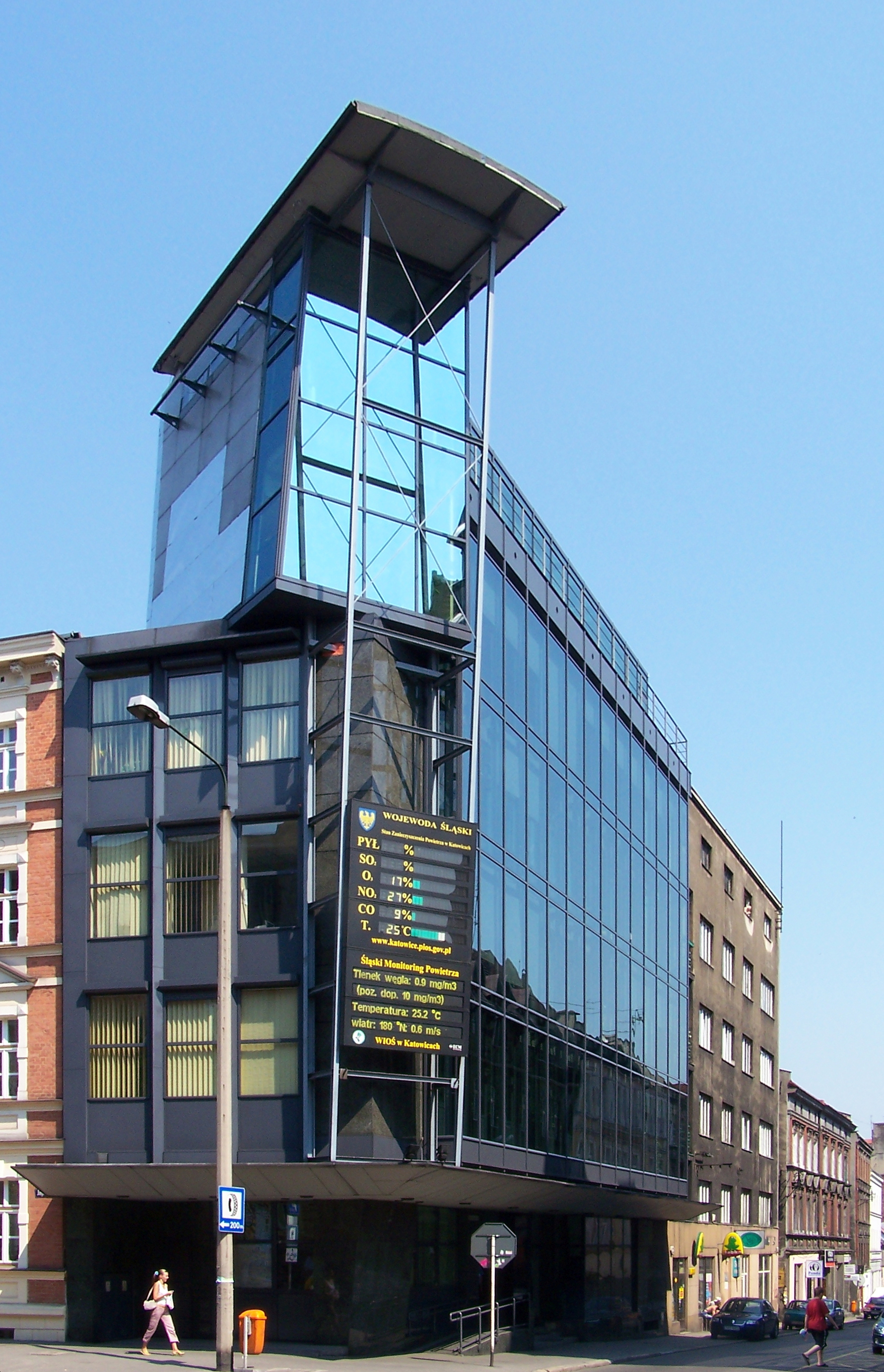 Building on the corner of Jagiellońska and Plebiscytowa street in Katowice (Poland).